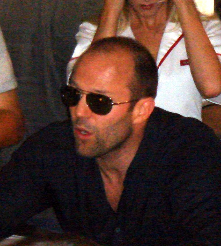 Jason Statham